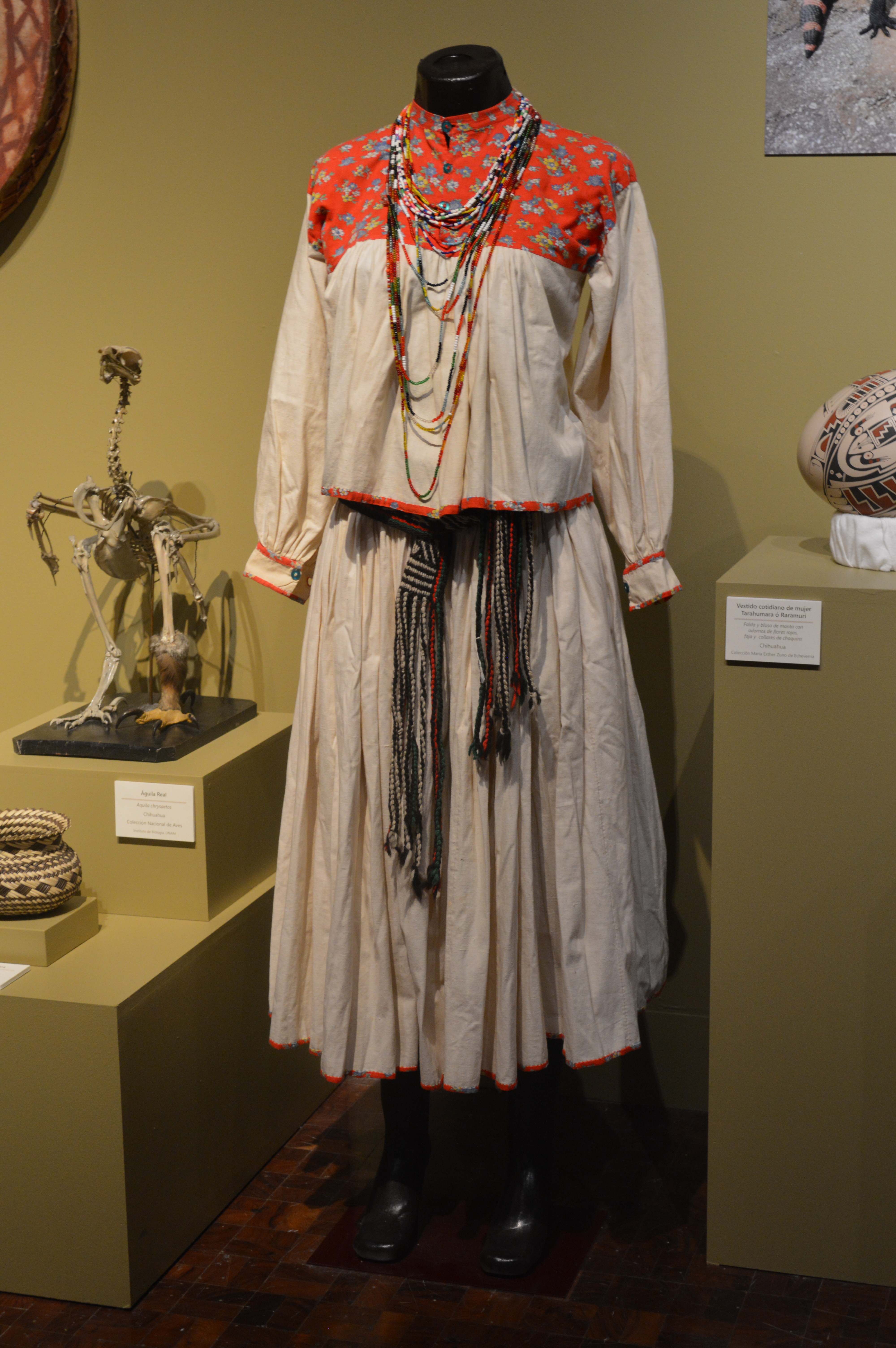 Traditional woman's dress (everyday) at the El Norte, su materia, su artesania at the Museo de Arte Popular in Mexico City